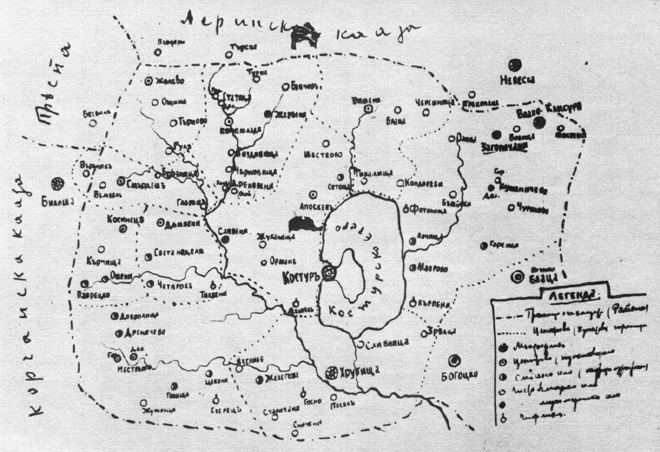 Kastoria region (A report of the leaders of the Ilinden Uprising in the Kastoria region sent to all foreign consulates in Bitola)